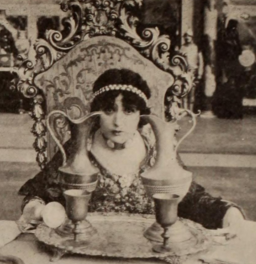 I believe this is a scene from The Eternal Sin